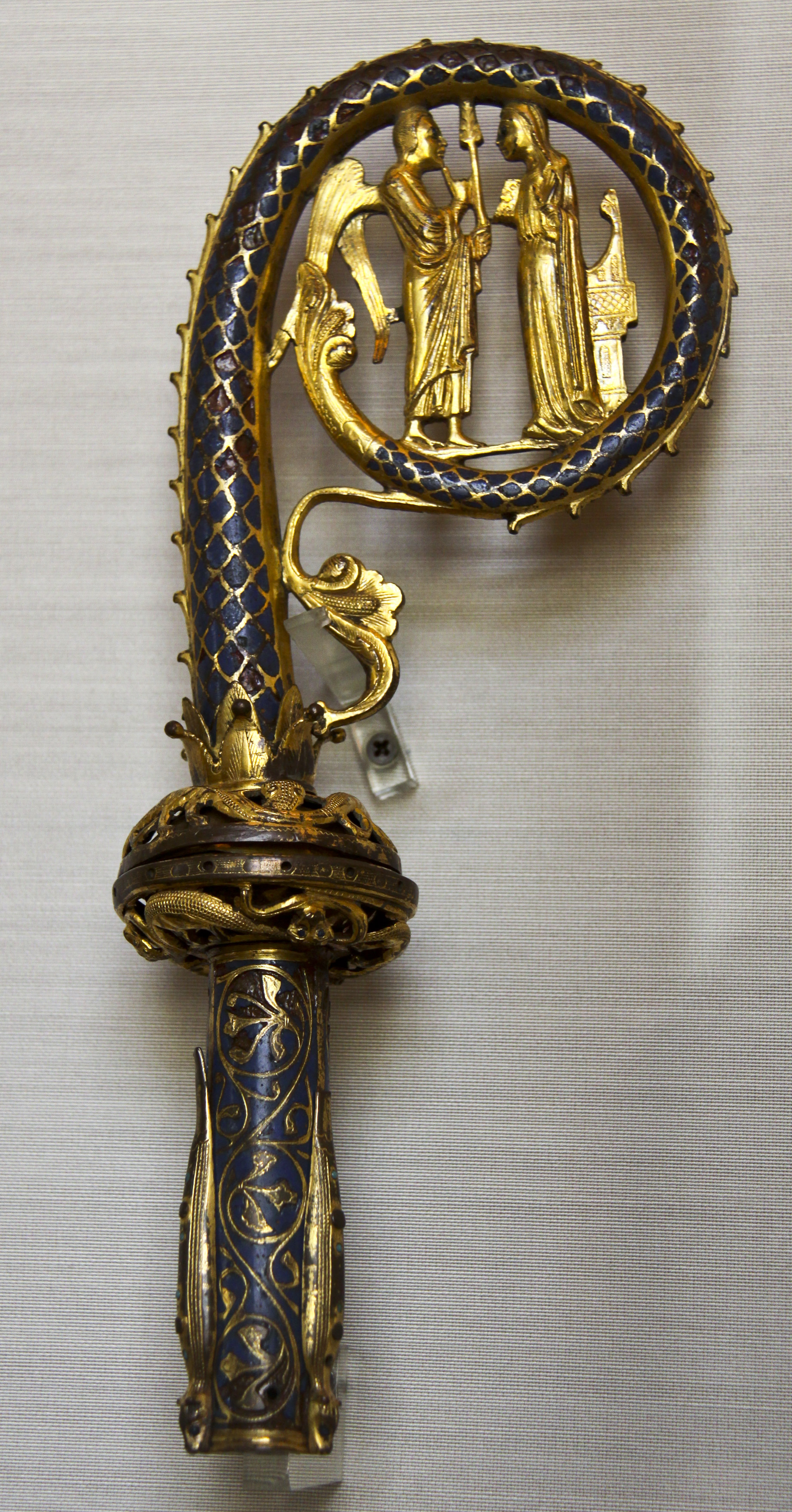 Crosier, 13th century, Limoges, France. In the collections of the Hermiatge Museum in Saint Petersburg.